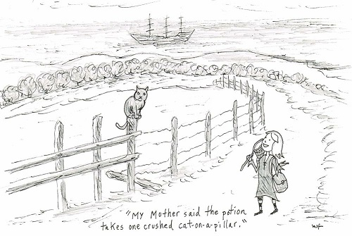 Orphie from 'The Goodbye Family' by Lorin Morgan-Richards